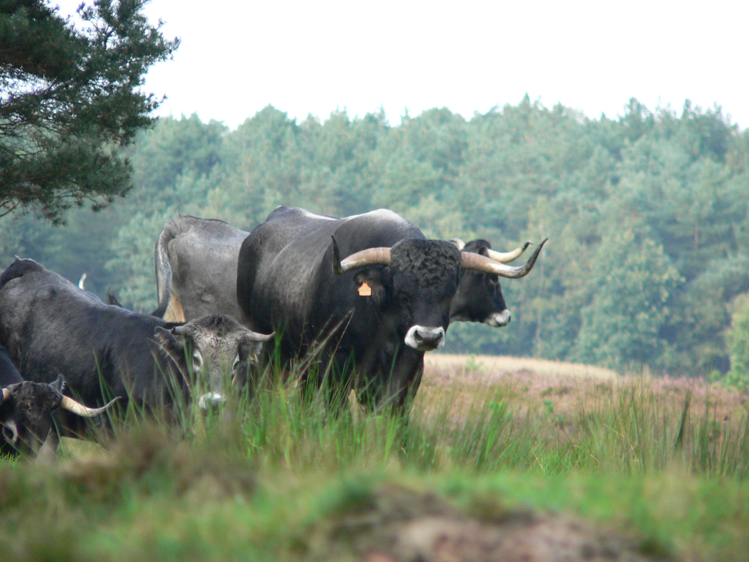 Tudanca imported to the Netherlands to make the heathland more diversified and prevent grass and trees becoming the dominant flora (Wolfheze, Gelderland)